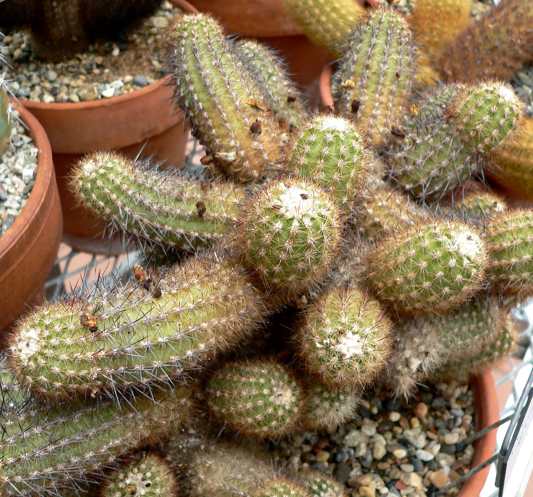 Photo of Mila lurinensis at the University of California Botanical Garden